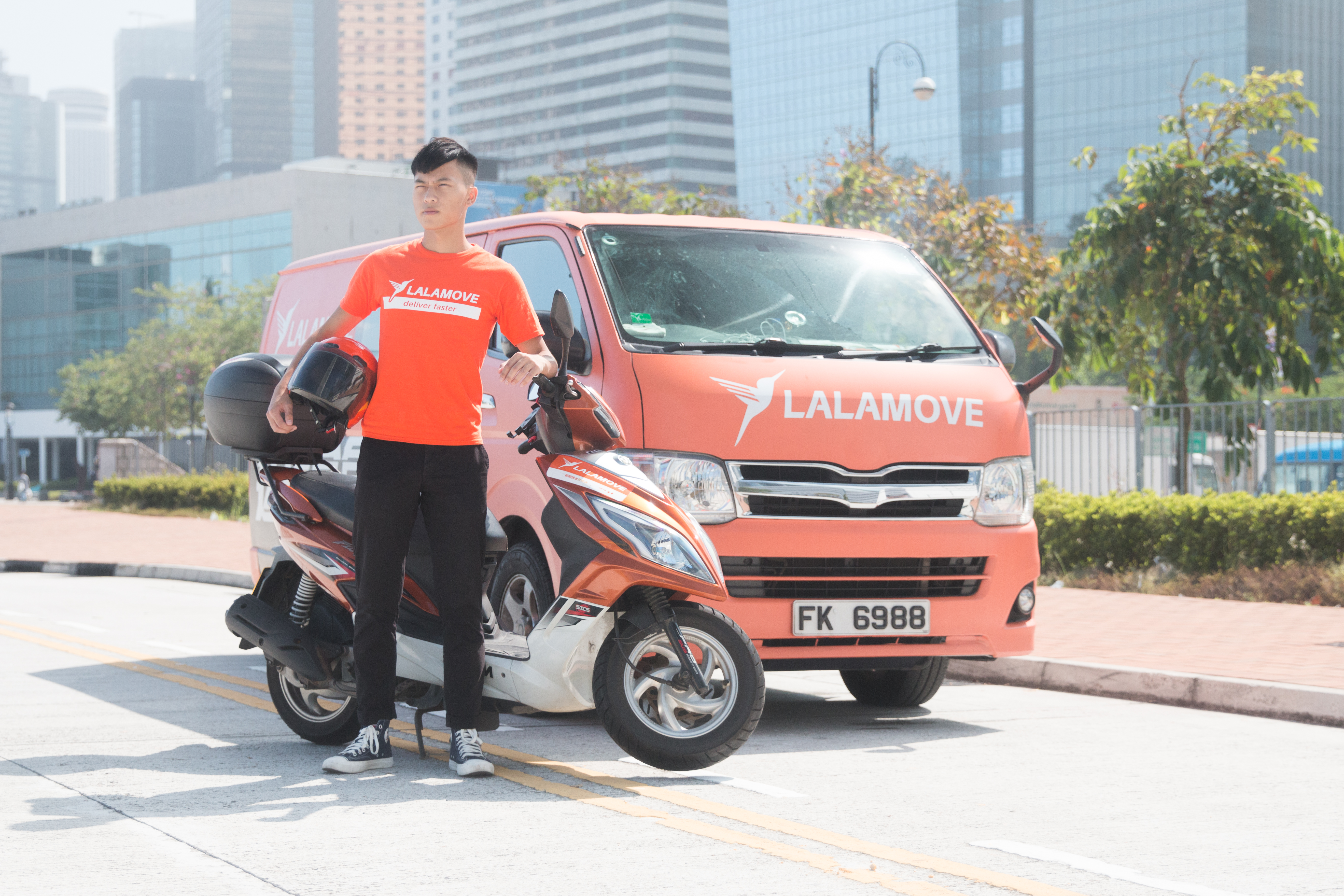 Lalamove vehicles and delivery driver in Hong Kong